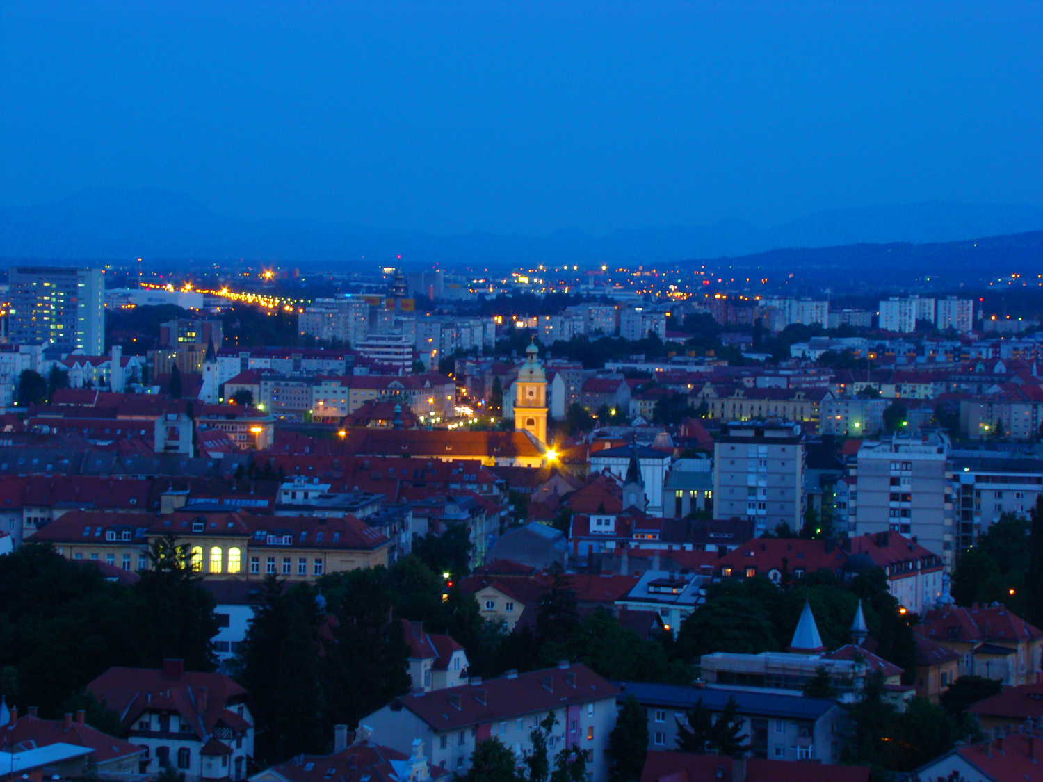 maribor at dusk from kalvarija hill